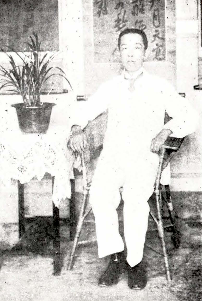 魏清德